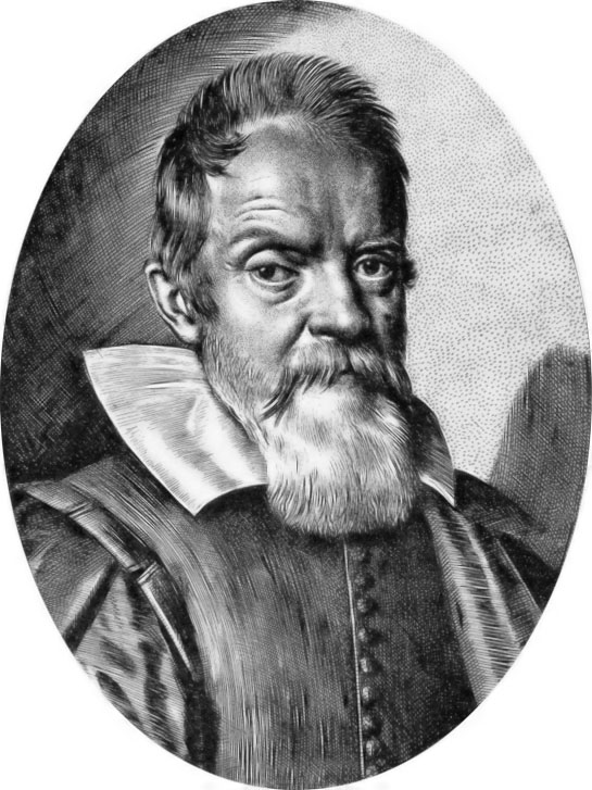 Galileo Galilei. Portrait by Ottavio Leoni.